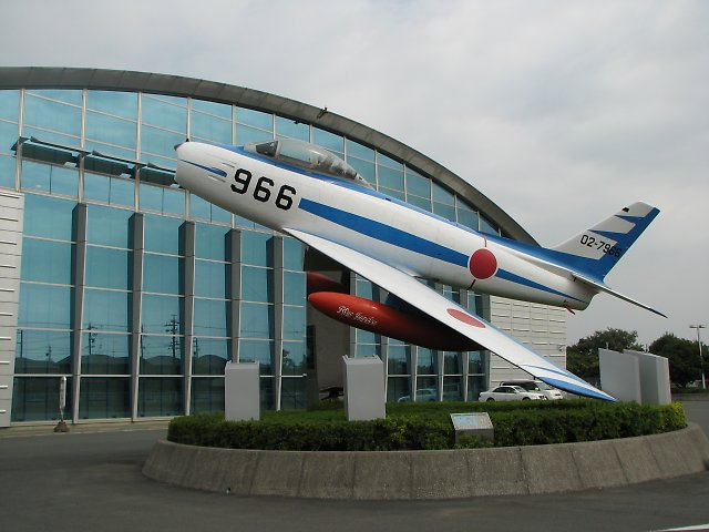 F-86 Blue Impulse gate guardian of JASDF's Hamamatsu Airbase